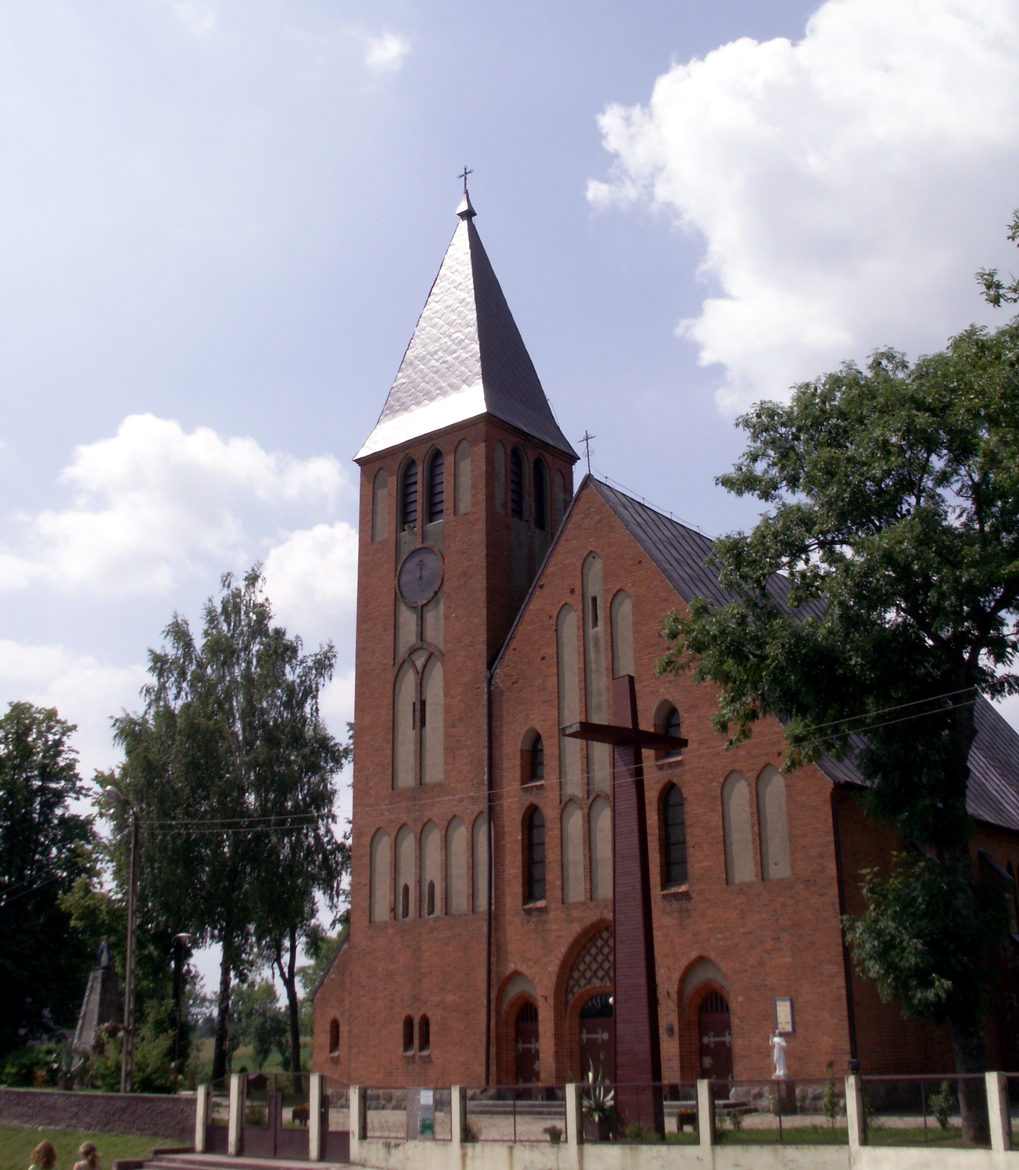 Dubeninki